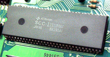 Konami SCC sound chip, used with specific Konami MSX computergames